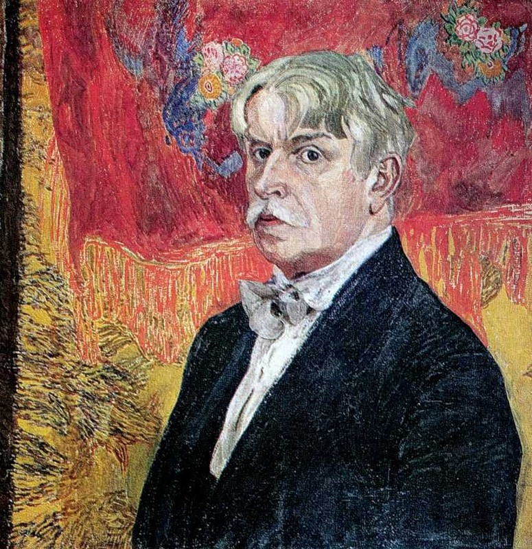 Self Portrait with Red Kerchief